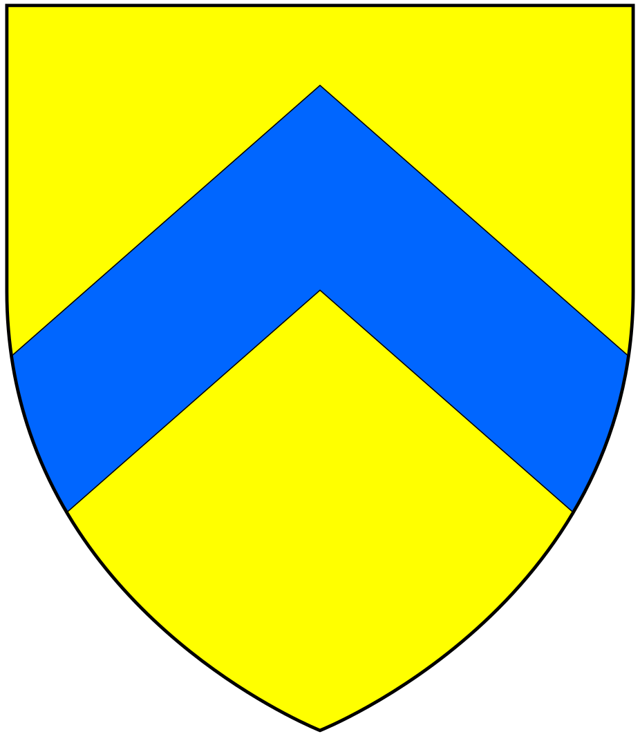 Arms of Bastard of Garston in the parish of West Alvington, Devon: Or, a chevron azure (Vivian, Lt.Col. J.L., (Ed.) The Visitations of the County of Devon: Comprising the Heralds' Visitations of 1531, 1564 & 1620, Exeter, 1895, p.49)